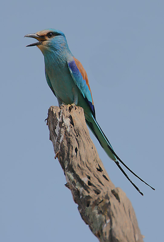 Image taken at Faraba, Western Division, The Gambia. A common but attractive species of open bush country.